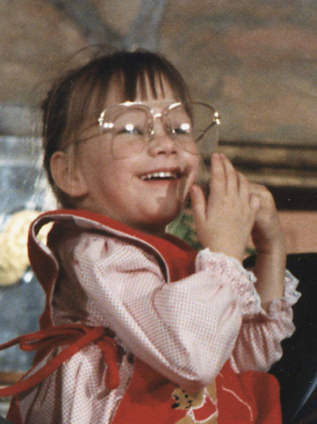 President Bush holds Jessica McClure during the Midland Community Spirit Award Presentation in the Roosevelt Room at the White House. The award was established by the town of Midland, TX and awarded to Sioux City, IA in recognition of the community's response to the crash of United Airlines Flight 232 on July 19, 1989